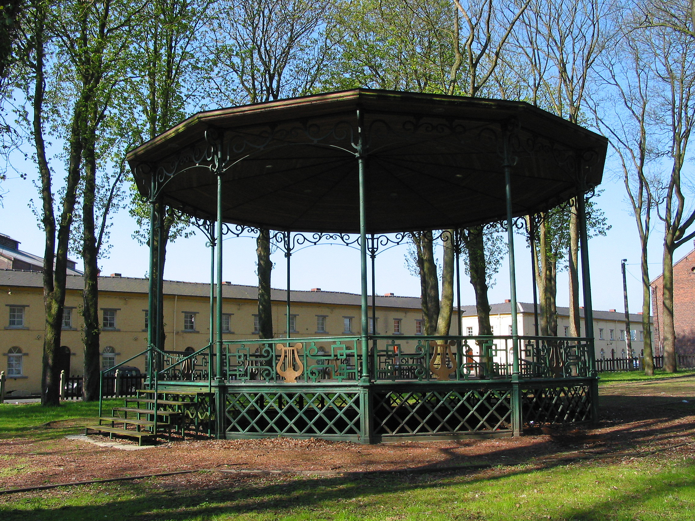 Houdeng-Aimeries (Belgium), pavilion (1900) in the Model village of «Bois-du-Luc» (1838-1853).